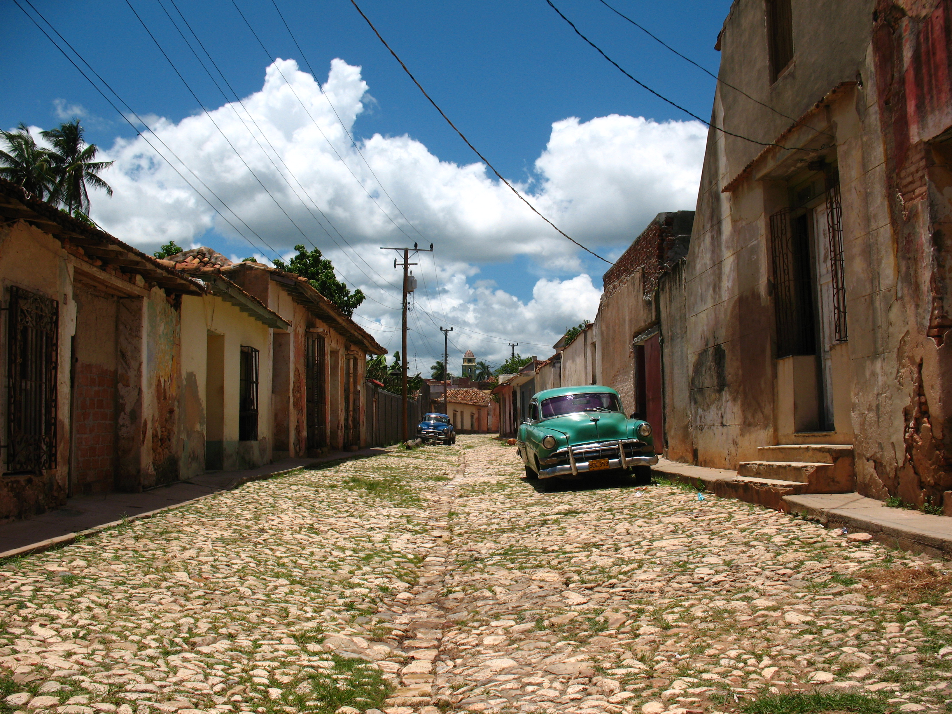 A street in Trinidad, Cuba. Trinidad has been one of UNESCOs World Heritage sites since 1988.